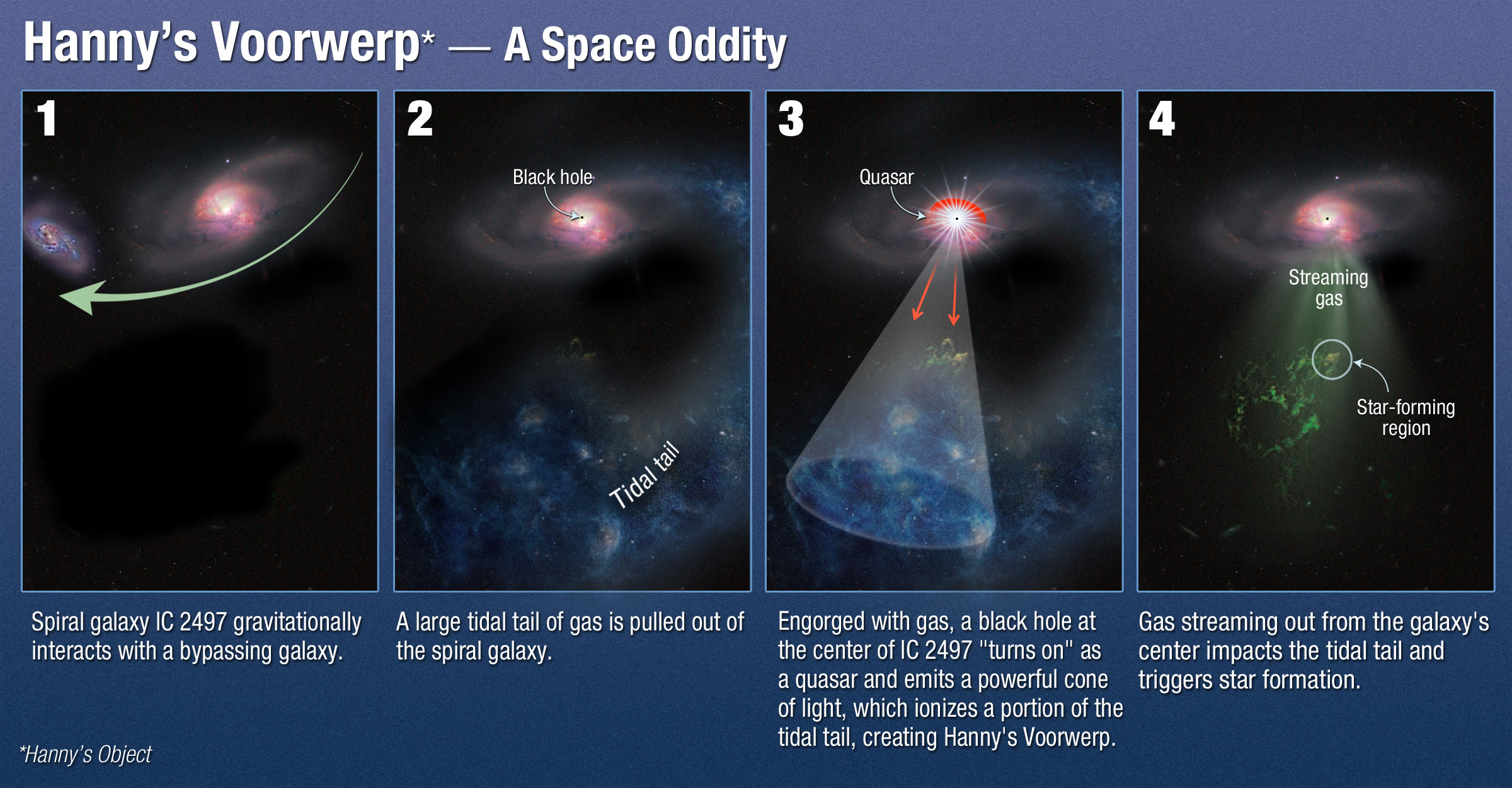 Astronomers found that Hanny's Voorwerp is the only visible part of a 300,000-light-year-long gaseous streamer stretching around the galaxy. The greenish Voorwerp is visible because a searchlight beam of light from the galaxy's core illuminated it. This beam came from a quasar, a bright, energetic object that is powered by a black hole. An encounter with another galaxy may have fed the black hole and pulled the gaseous streamer from IC 2497.